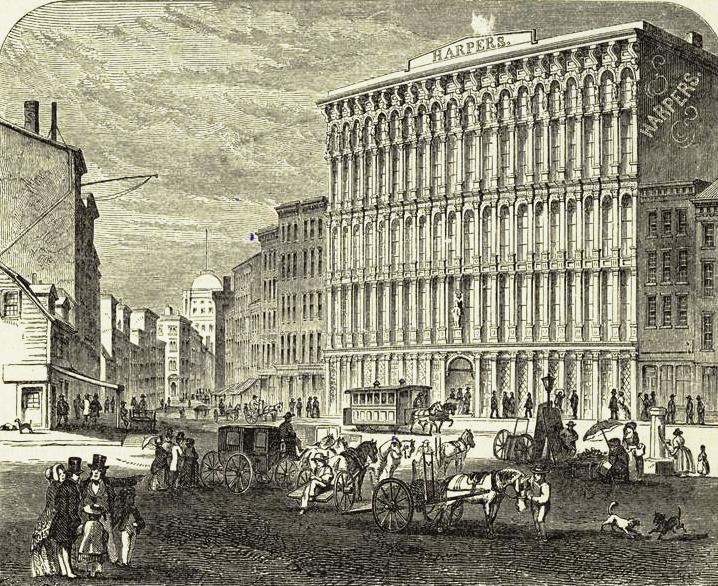 Image Title: Publishing house of Harper & Brothers. Published Date: 1890 Specific Material Type: Prints Item Physical Description: 1 print : b&w ; 11 x 13 cm. (4 1/4 x 5 1/4 in.) Original Source: From Harper's popular cyclopedia of United States history from the aboriginal period to 1876 : containing brief sketches of important events and conspicuous actors. (New York : Harper, 1890) Lossing, Benson John (1813-1891), Author. Source: Mid-Manhattan Picture Collection / New York City -- office buildings Source Description: 2 folders (70 pictures) Location: Mid-Manhattan Library / Picture Collection Catalog Call Number: PC NEW YC-Off Digital ID: 806076 Record ID: 693938 Digital Item Published: 10-27-2005; updated 3-25-2011